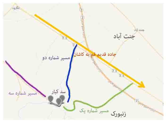 kebar dam way